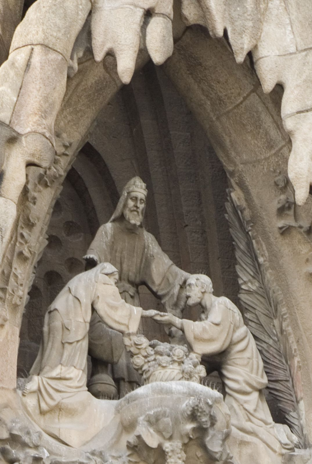 Barcelona - Plaça de Gaudí - Nativity Façade - View SW on Legendary Rendering of the Marriage between Joseph and Mary